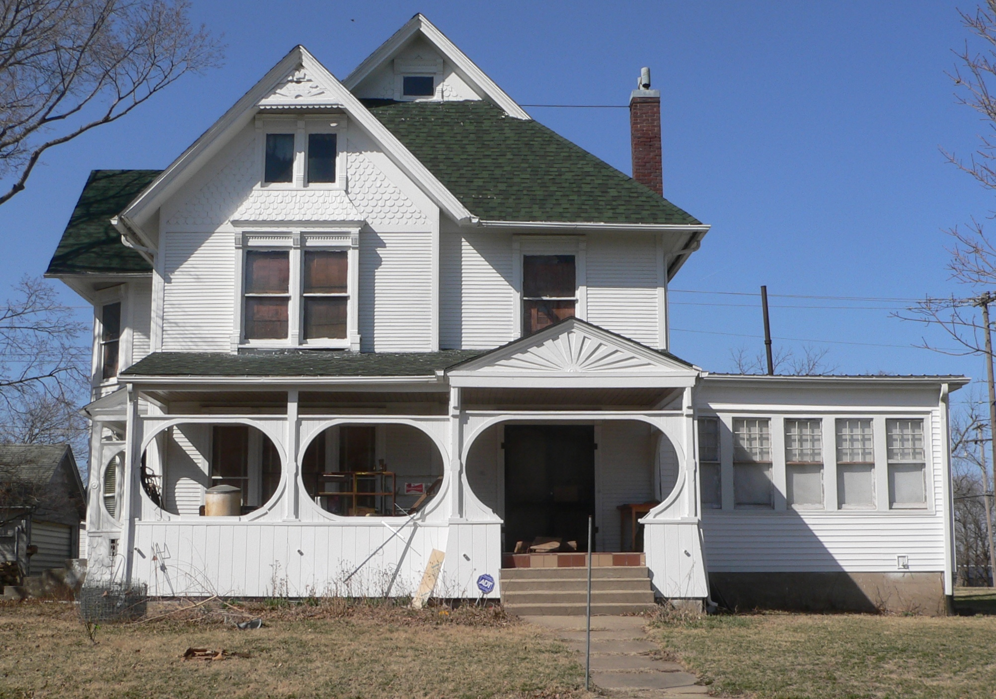 E. F. Hempstead house, located at southwest corner of 14th and H Streets in Pawnee City, Nebraska; seen from the east, across H.